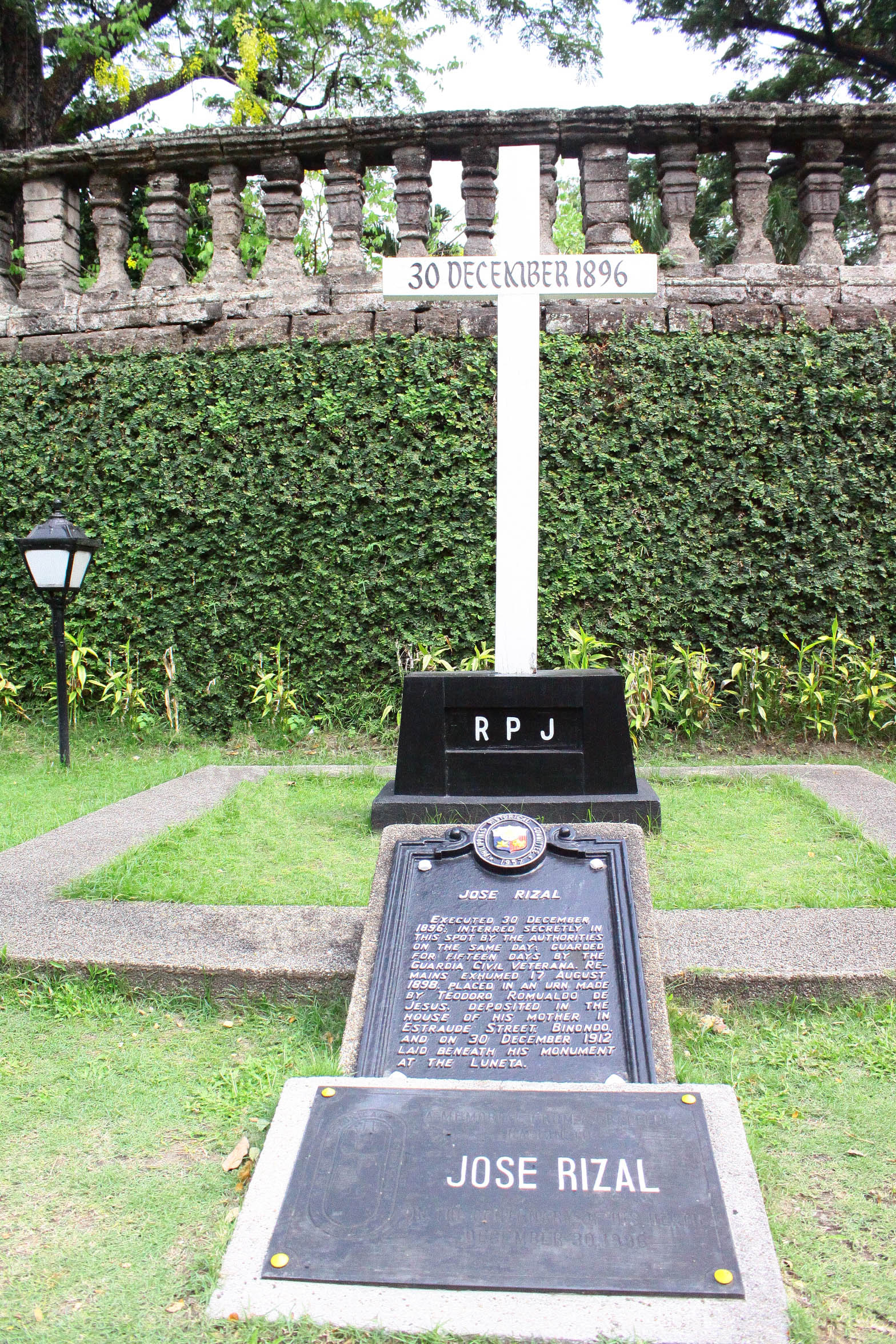 A memorial in Paco Park (formerly Paco Cemetery) where Jose Rizal was first buried after his execution in Luneta.